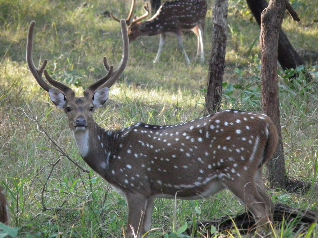 Chital Stag